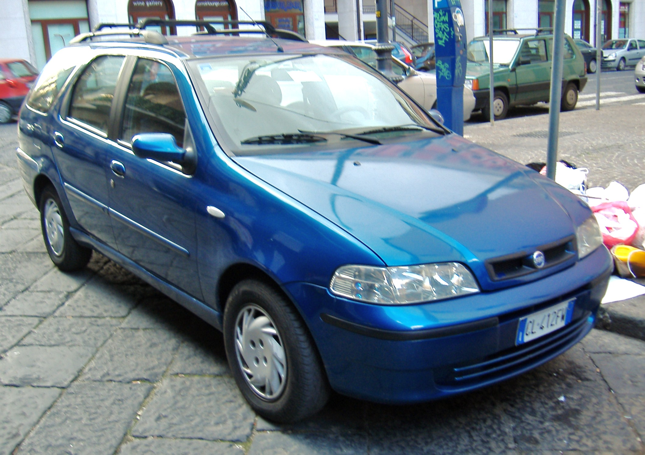 Fiat Palio SW.